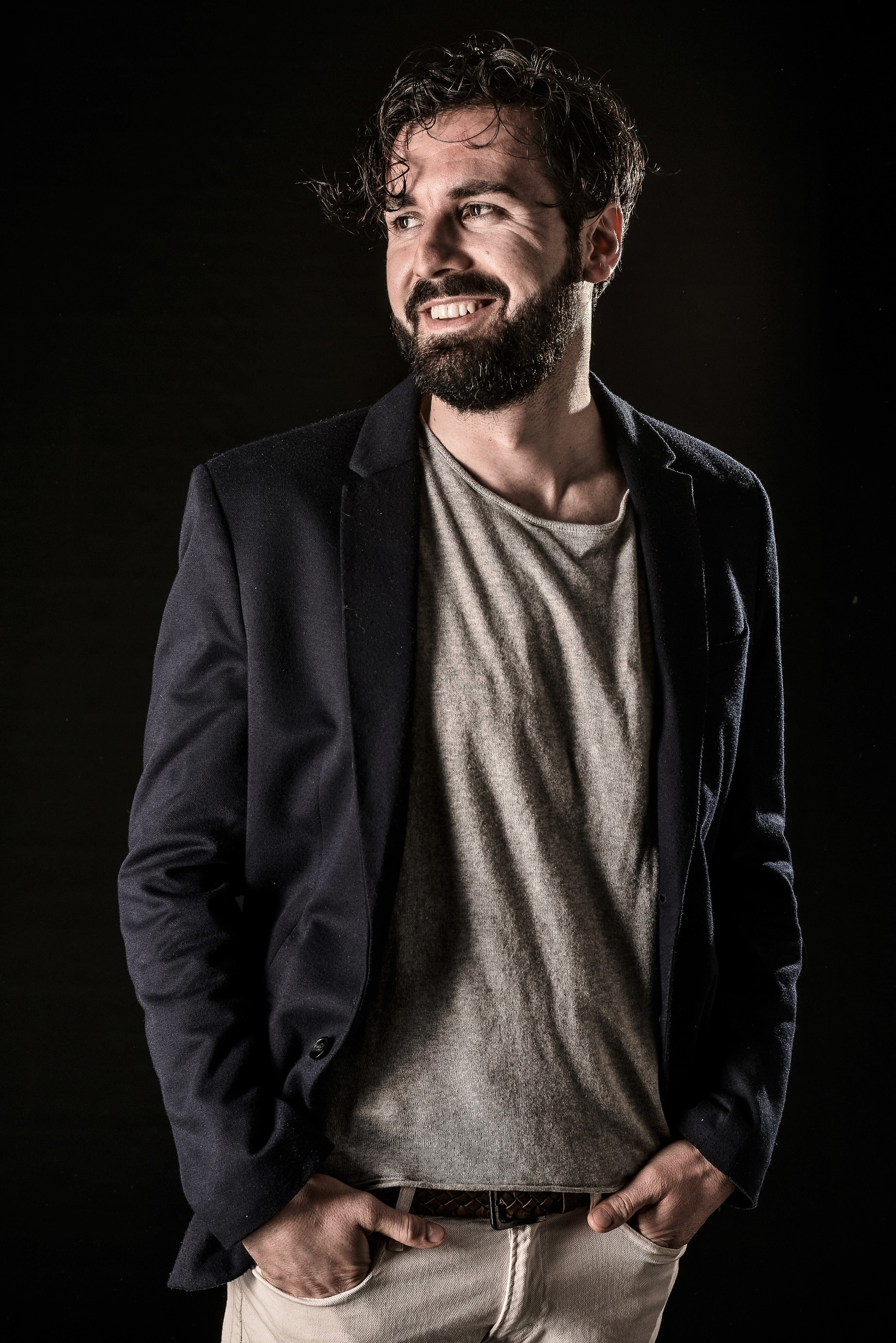 Albanian-born Italian actor Rimi Beqiri in a studio photograph commissioned by himself